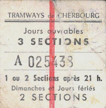 Cherbourg tram ticket